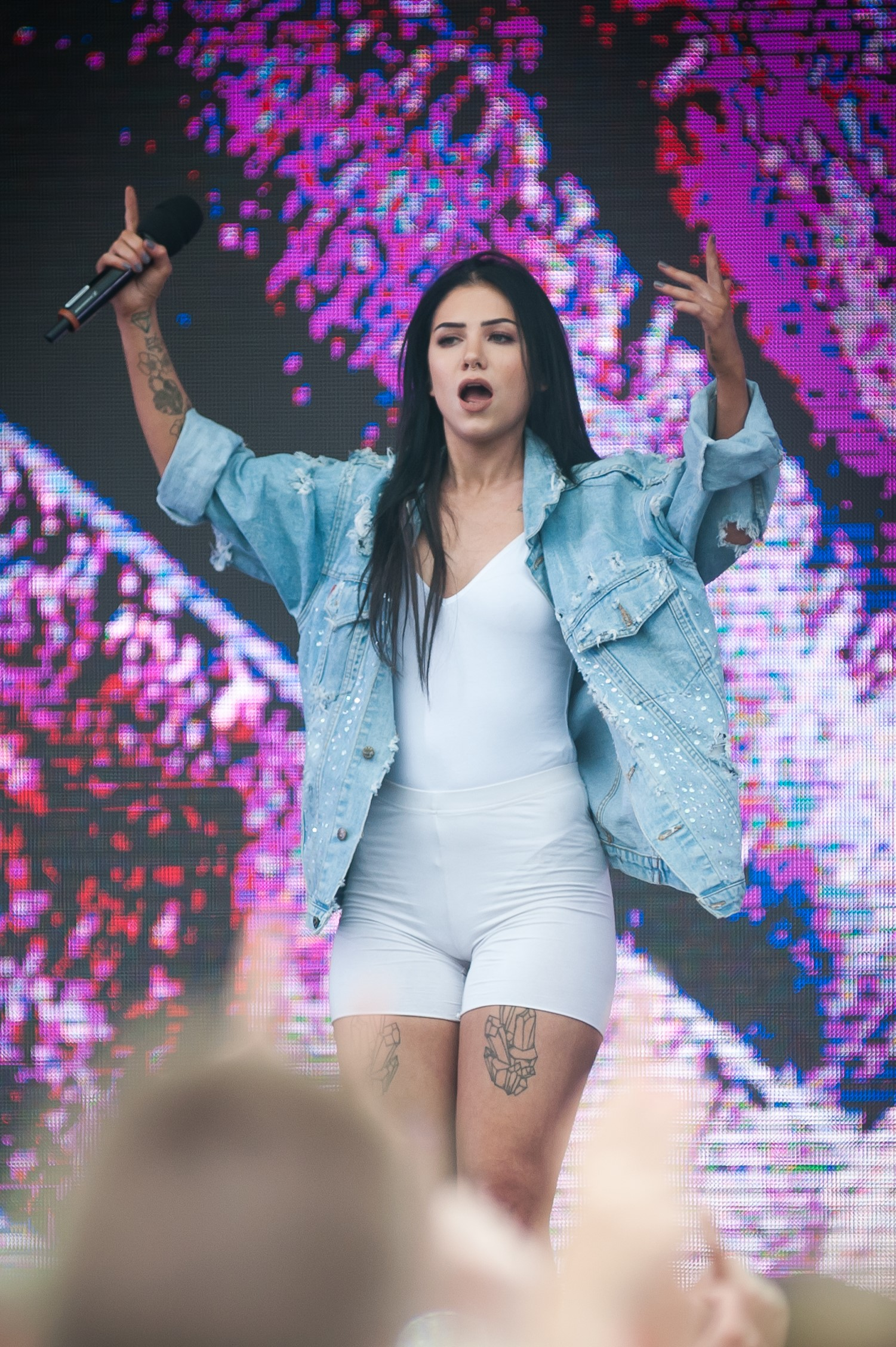 Finnish vocalist Evelina performing at YleXPop event in Lahti, Finland on the 4th of June, 2016.